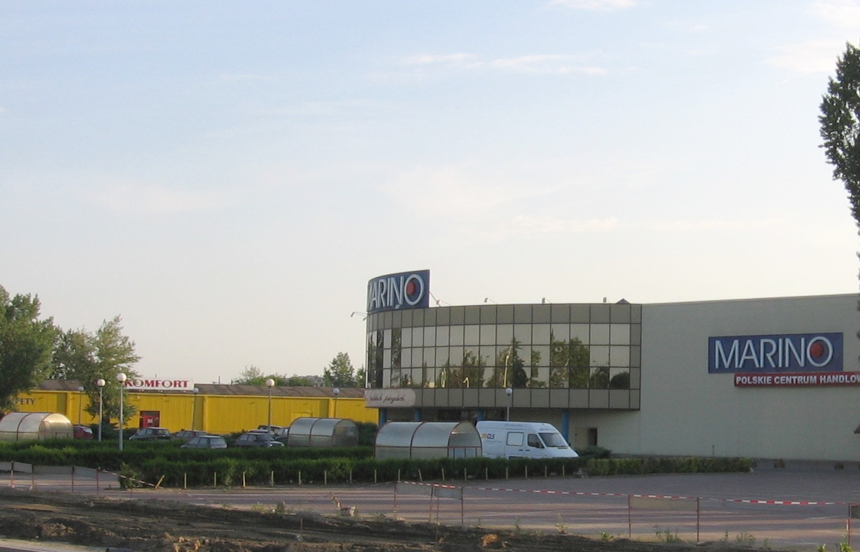 Wrocław, Poland Ligota settlement - shopping center "Marino", Paprotna street